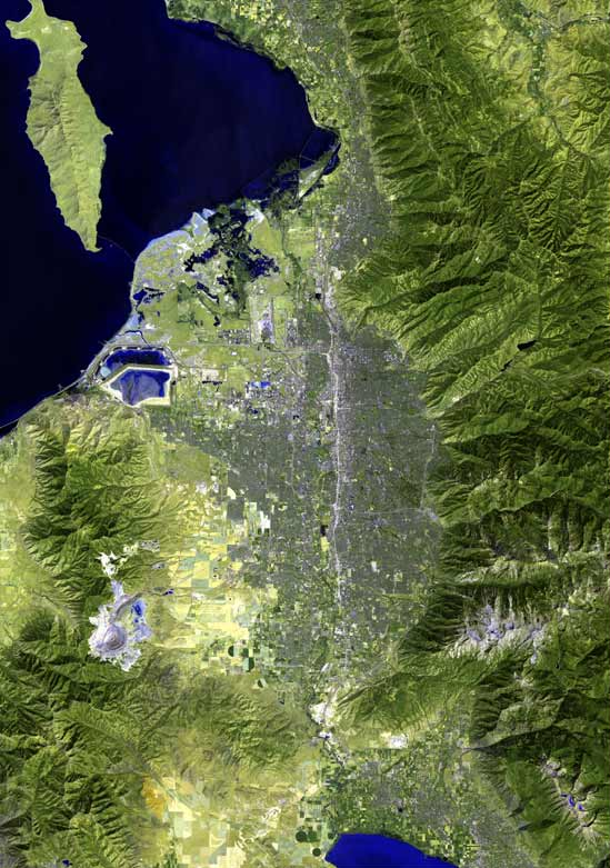 Satellite image of Salt Lake City, Utah